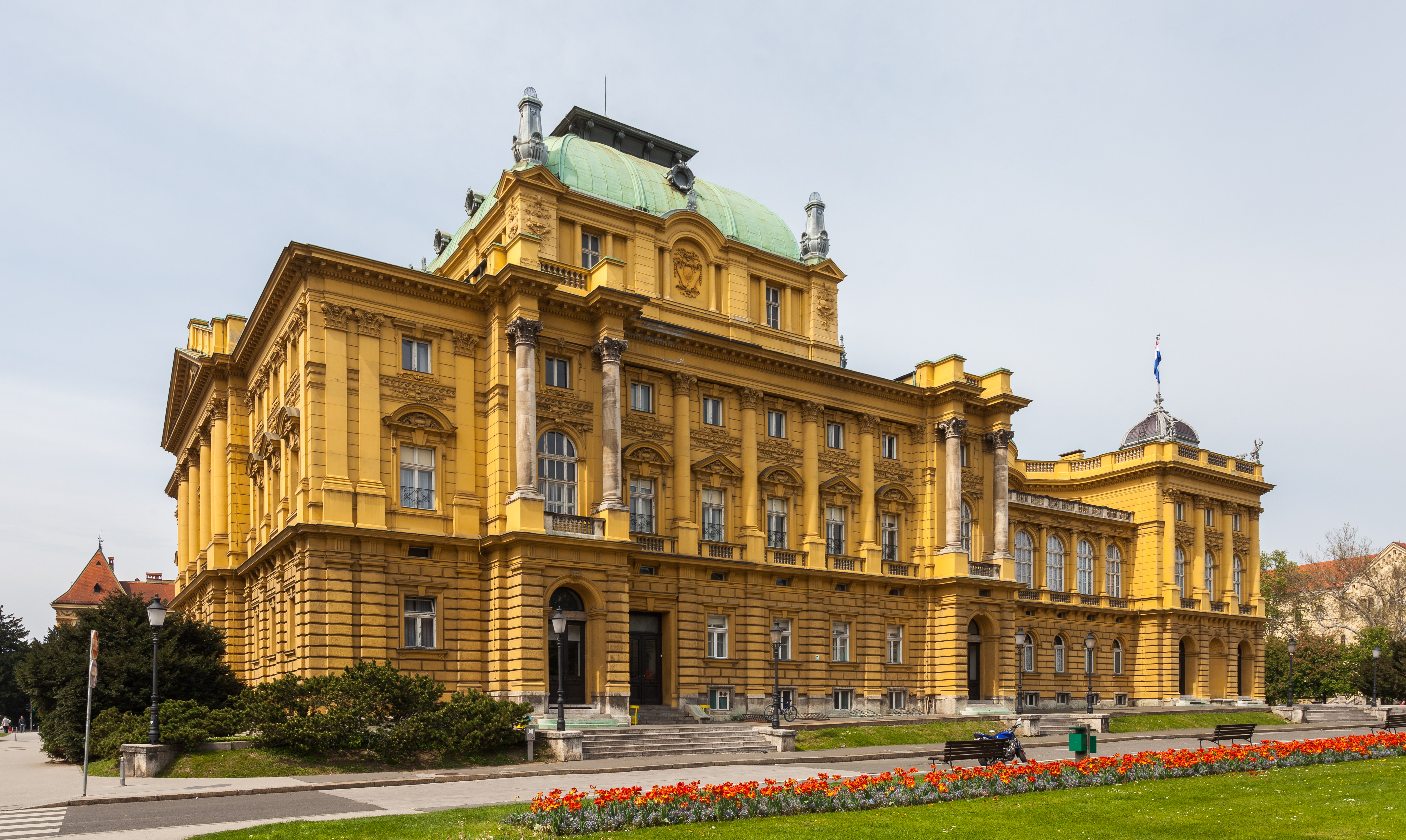 Croatian National Theater, Zagreb, Croatia